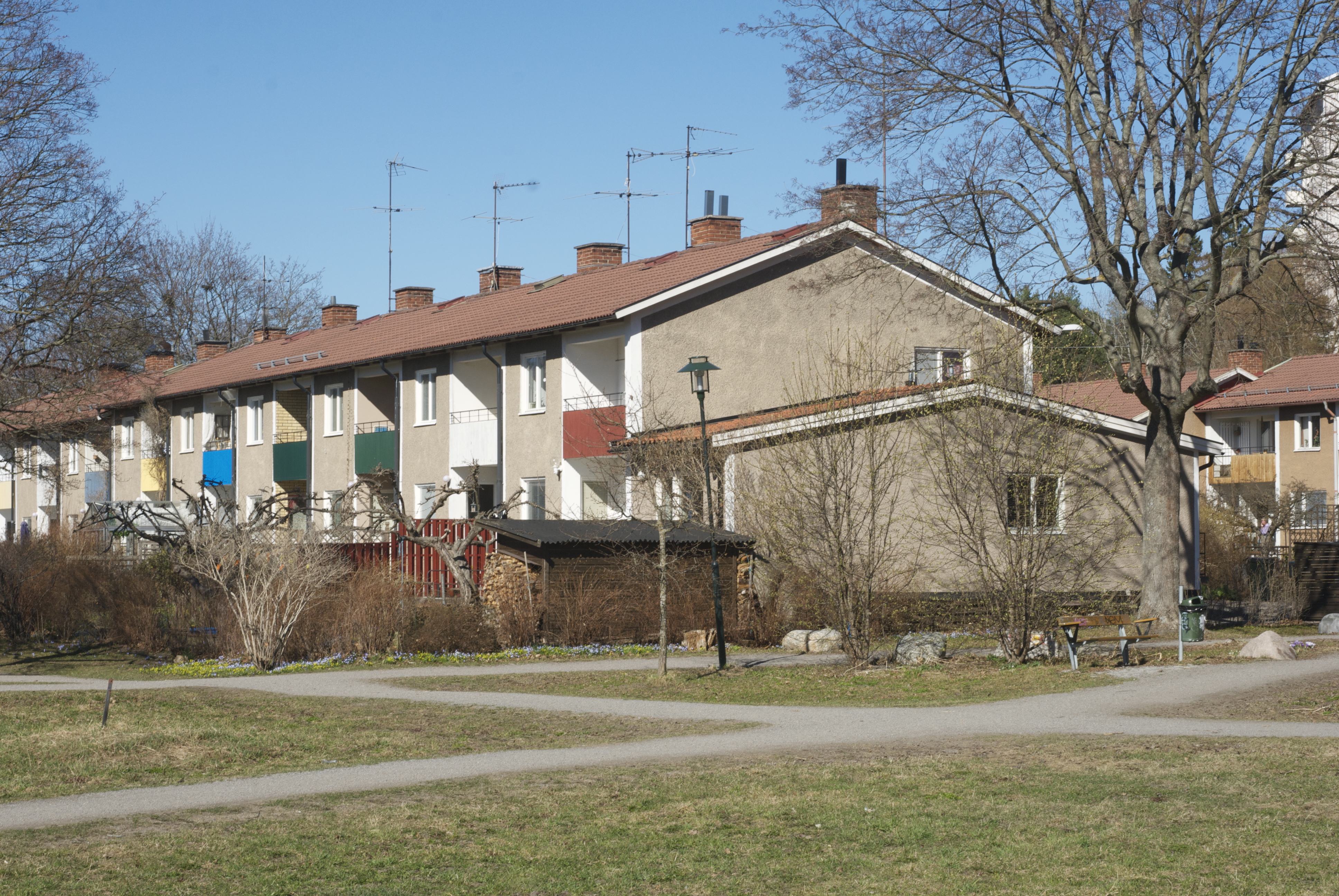 Terrace house built 1949-51 at Ystadsvägen, Björkhagen.